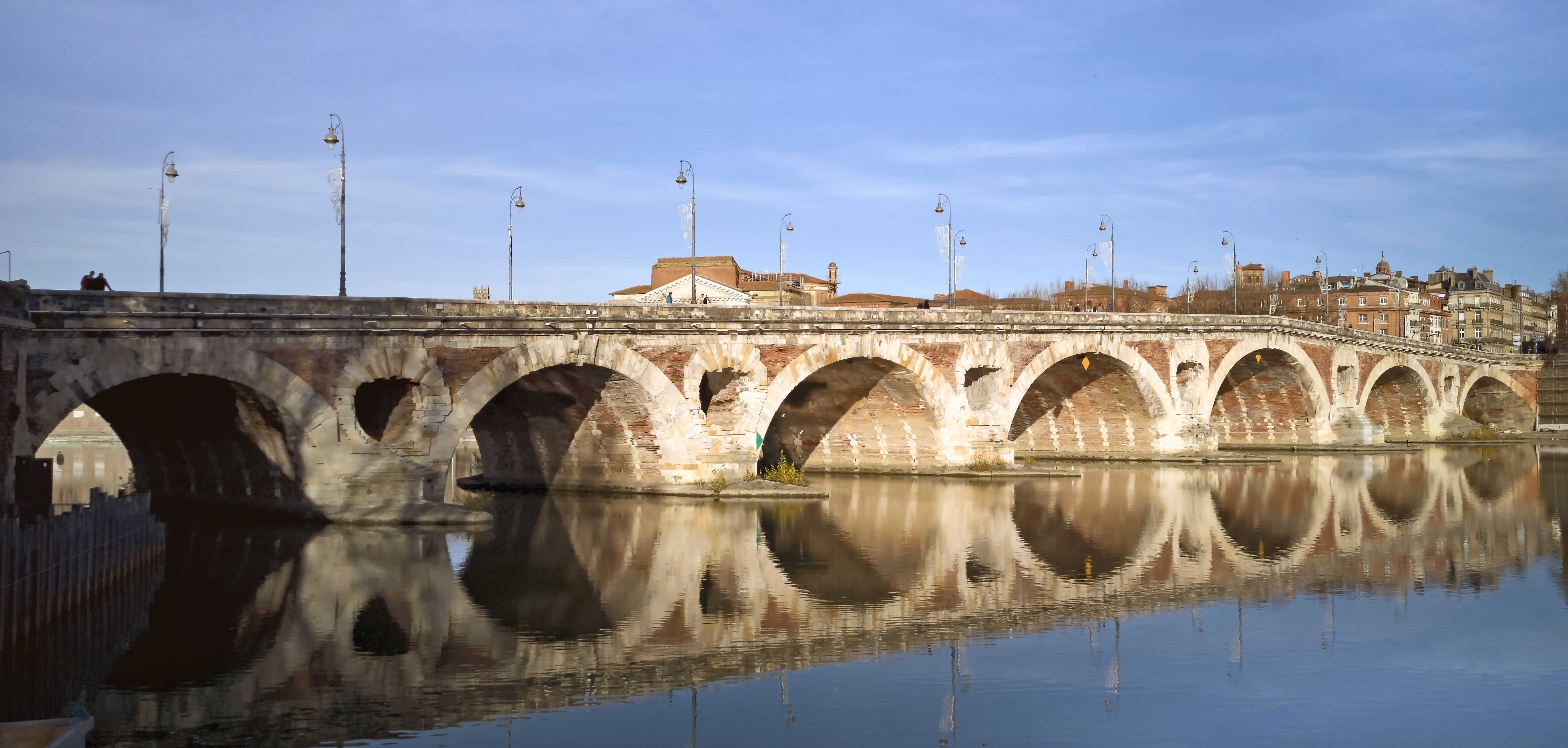 The Pont-Neuf seen from the Prairie des Filtres- Architect Nicolas Bachelier